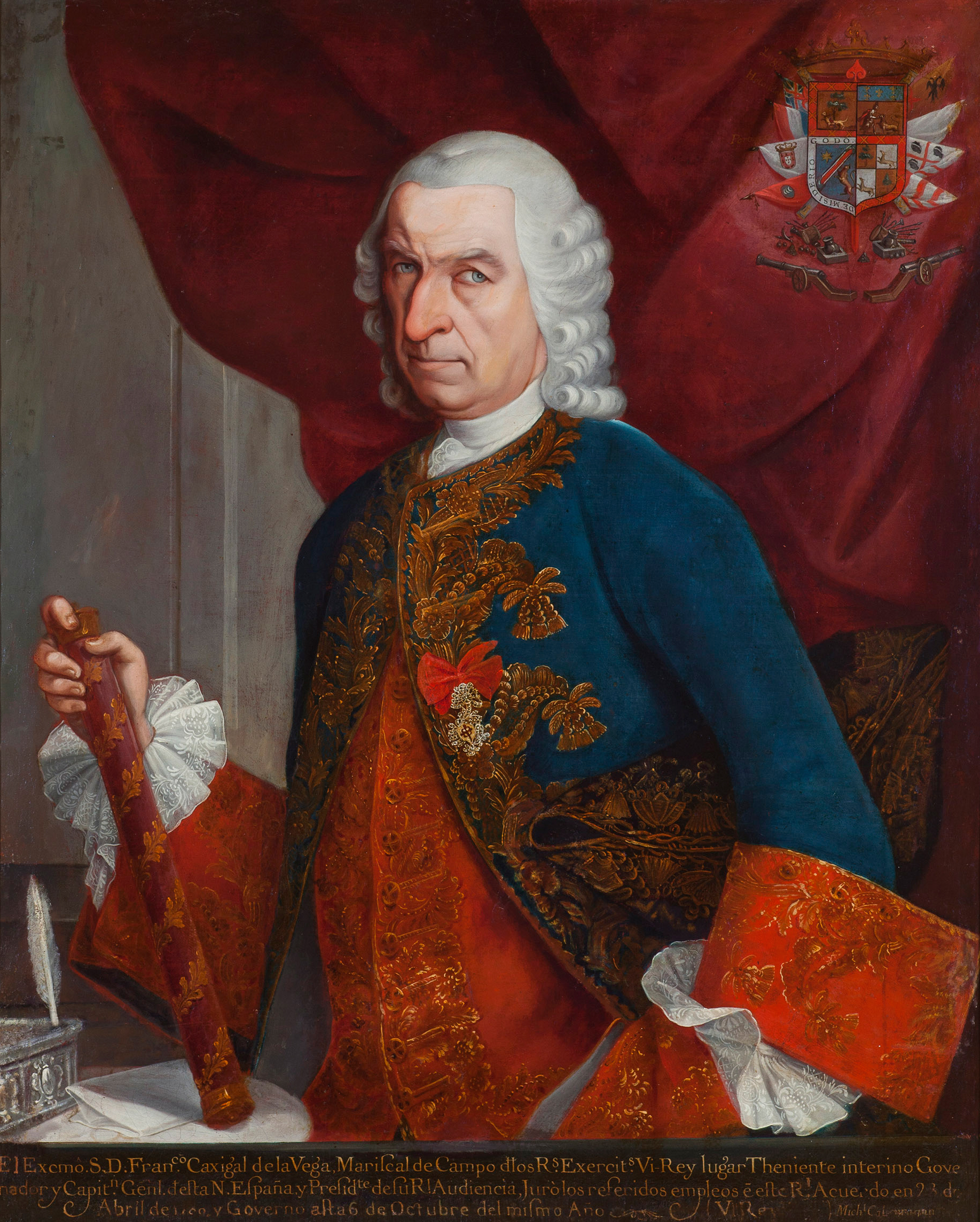 Portrait of Spanish Viceroy Francisco Cajigal de la Vega (1691-1777)